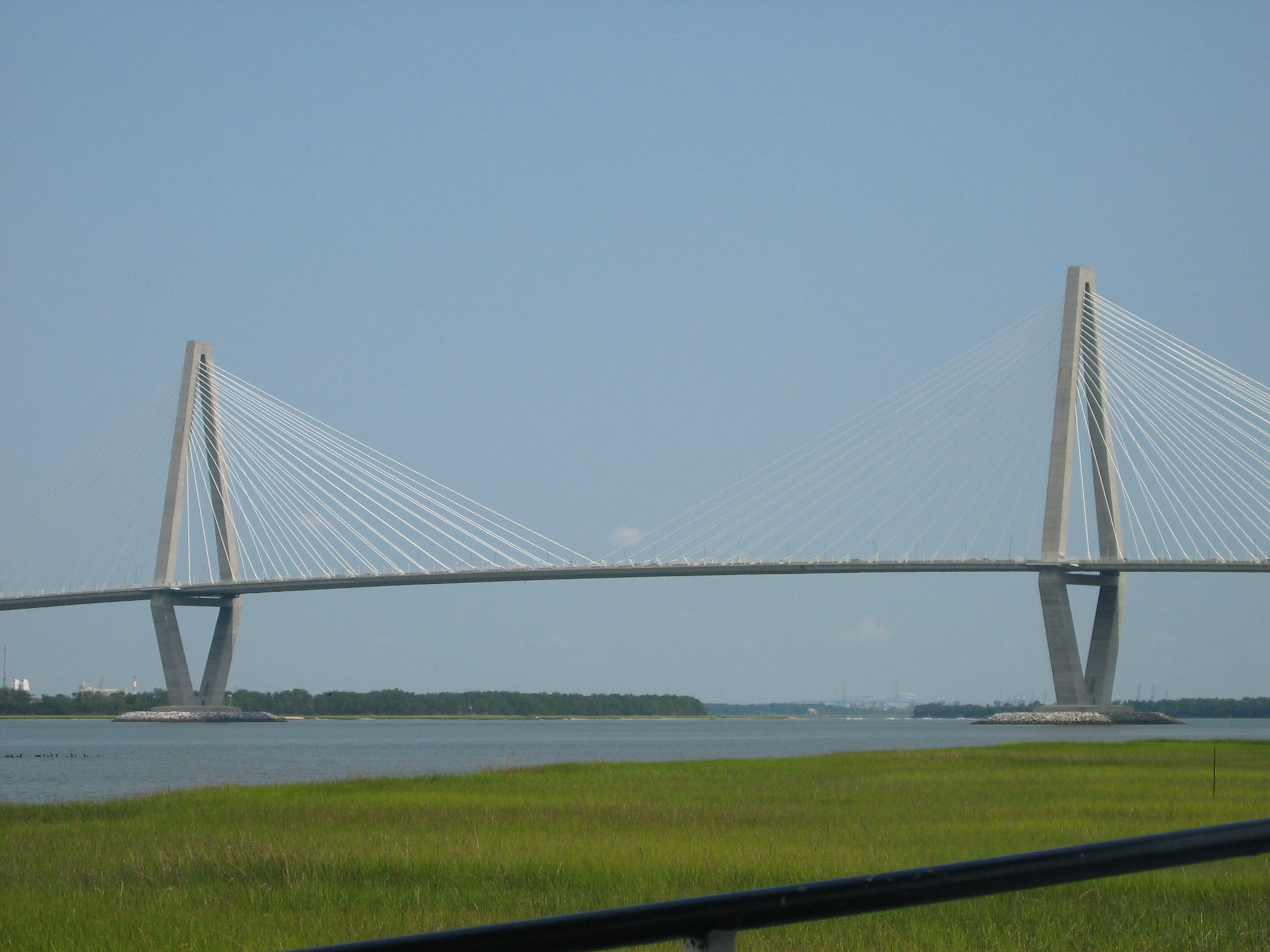 The Arthur Ravenel Jr. Bridge, also known as the New Cooper River Bridge, is a cable-stayed bridge over the Cooper River in South Carolina, connecting downtown Charleston to Mount Pleasant